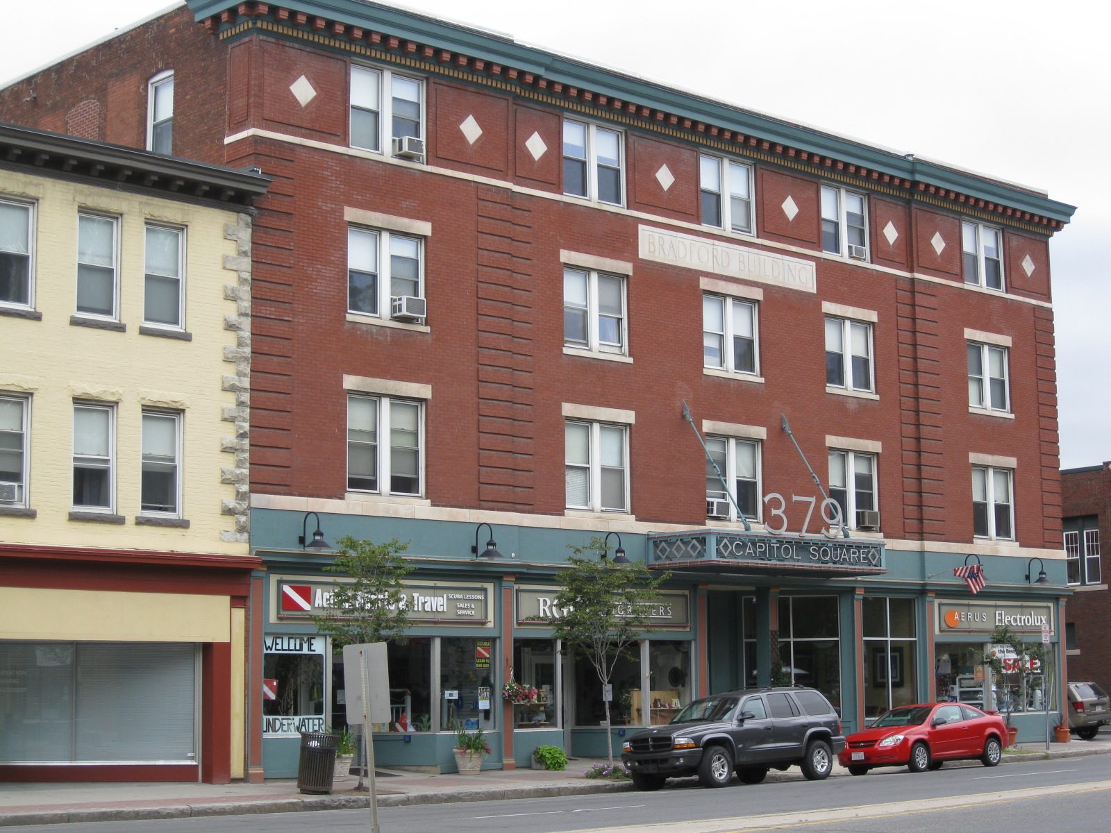 Bradford Block, Pittsfield, Massachusetts; part of the Upper North Street Commercial District.